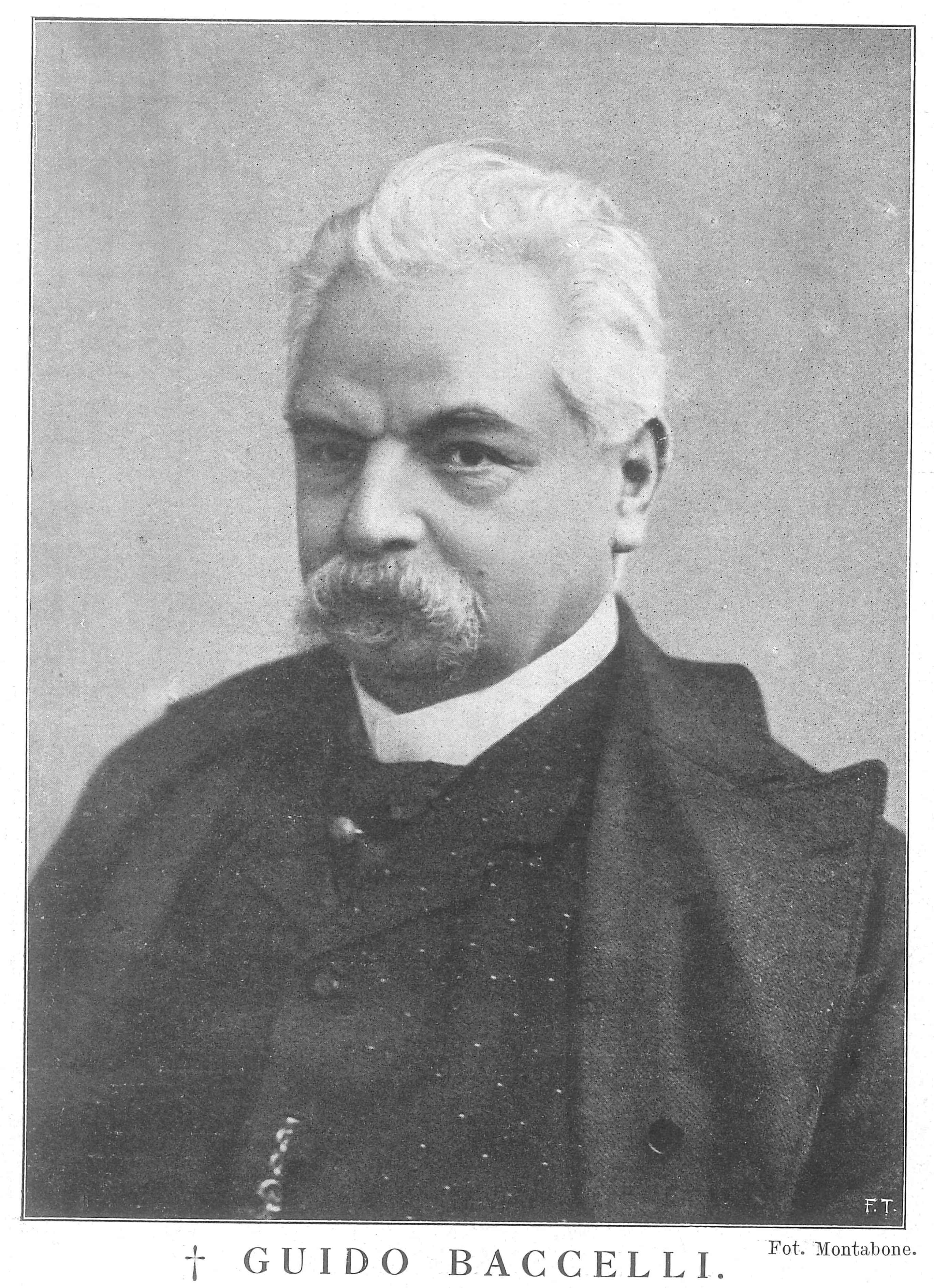 Guido Baccelli, from L'Illustrazione Italiana, 16 gennaio 1916, p. 62